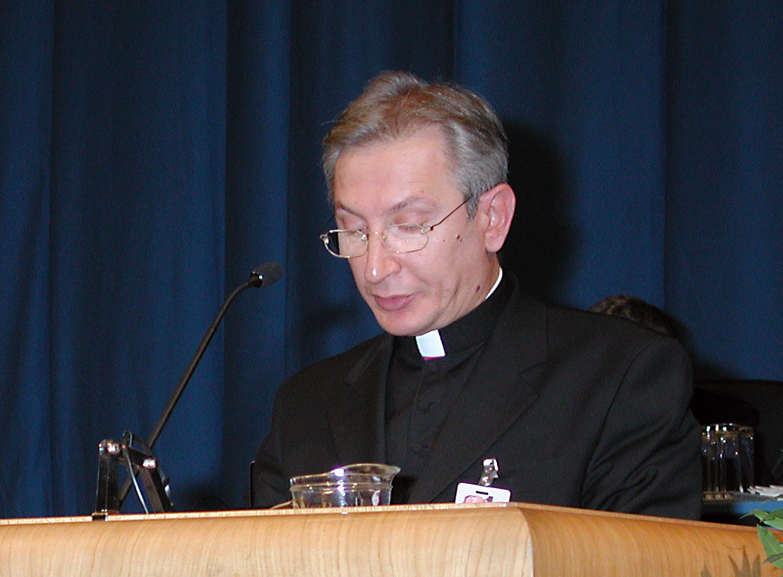 Historical IAEA - GC45 Speakers Speakers deliver their statement during the general debate at the IAEA 45th General Conference. IAEA, Vienna, Austria. September 2001. Rev. Monsignor Leo Boccardi Resident Representative to the Agency Photo Credit: Dean Calma / IAEA